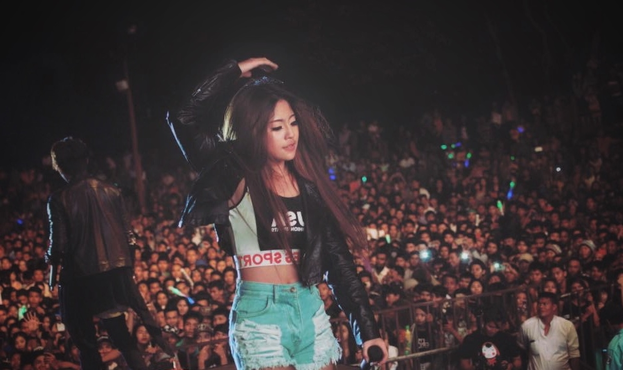 Bobby Soxer also Htet Htet is a Burmese singer, songwriter, composer, actress and model.